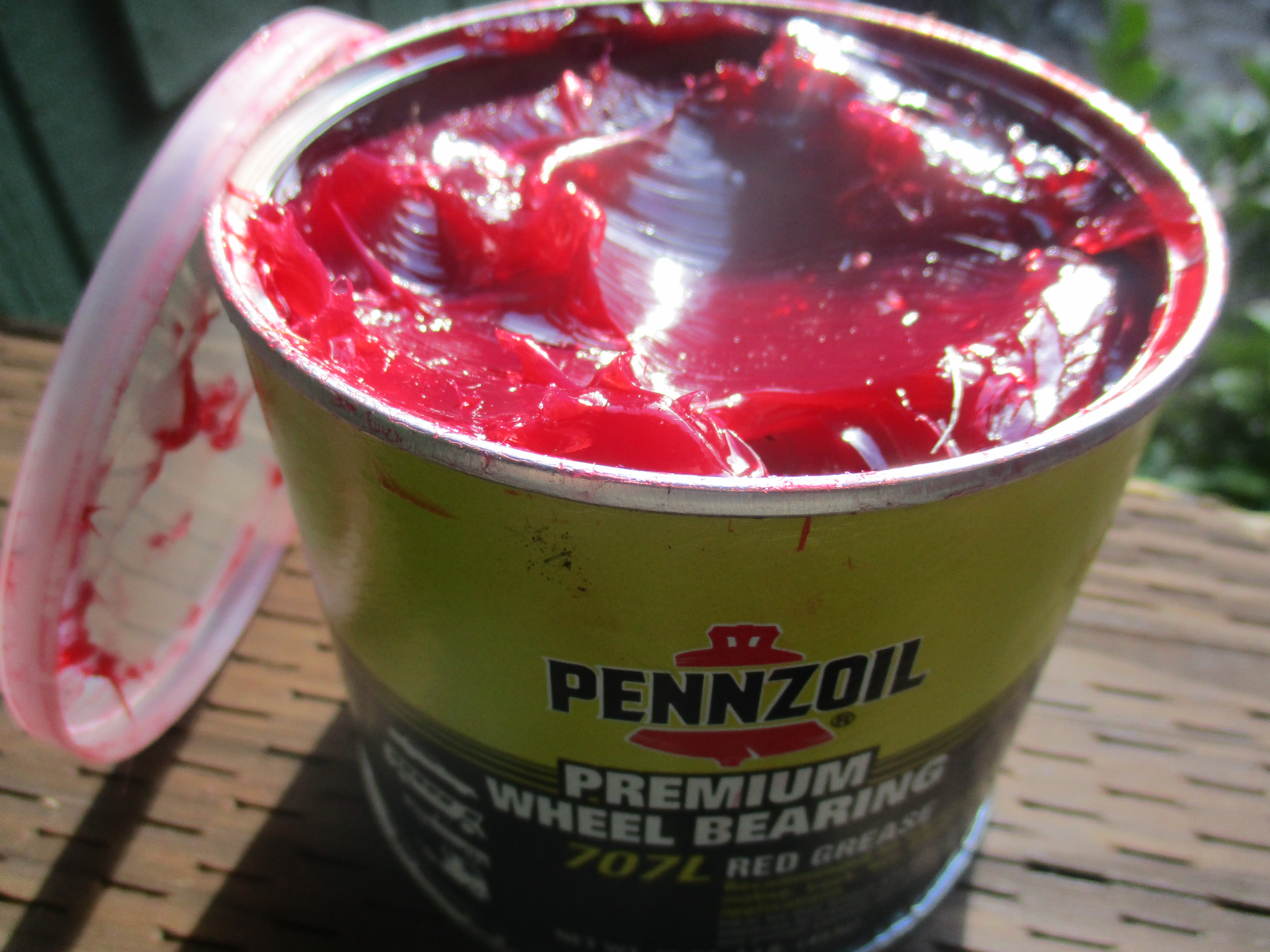 This is a picture of red wheel bearing grease.